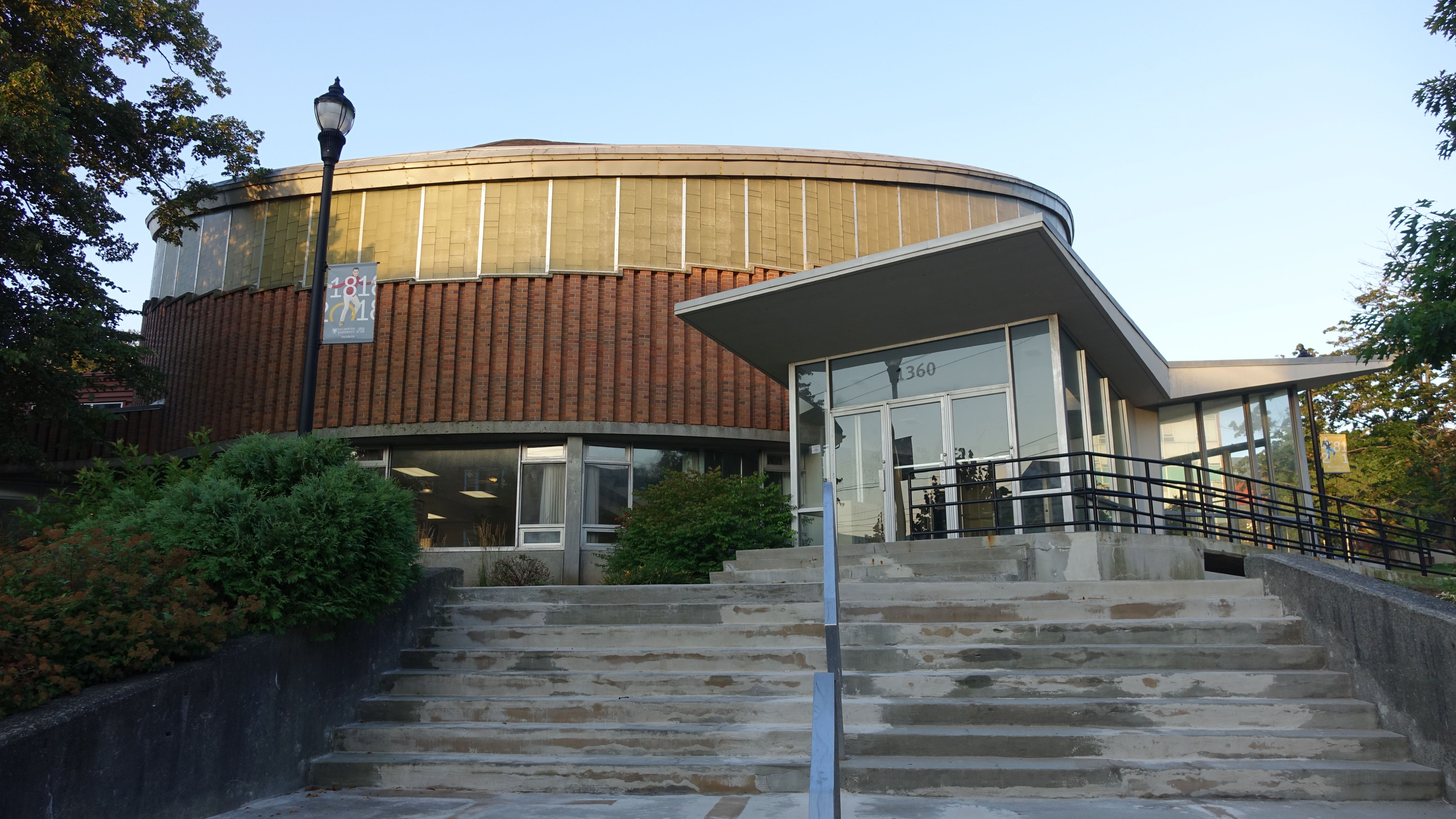 This photo taken on 15 September 2018 at 1360 Barrington Street in Halifax, Nova Scotia, Canada shows part of the F. H. Sexton Memorial Gymnasium building on the Sexton Campus of Dalhousie University.